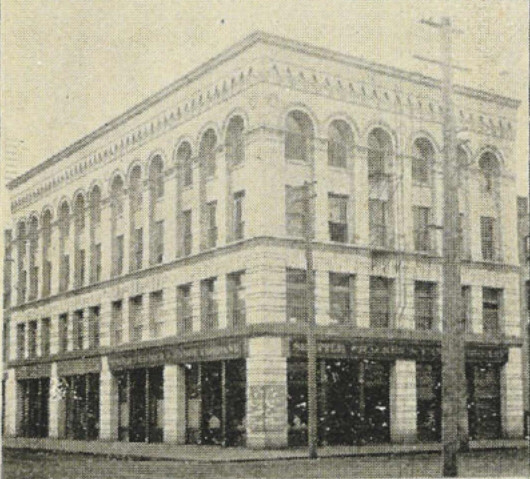 Seattle Cracker and Candy Company, from brochure Seattle and the Orient (1900). According to Polk's Seattle City Directory 1899 (Polk's Seattle Directory Co., 1899), p. 866, the company was at Occidental Avenue (now the "Occidental Mall" block of Occidental Way South) at the southwest corner of Main. That is now the Union Trust Building. See Summary for 119 S Main ST S / Parcel ID 5247800360, Seattle Department of Neighborhoods.